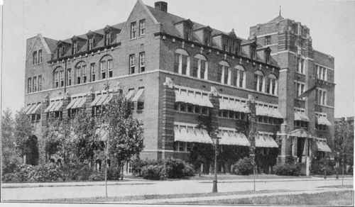 Photograph of American School of Correspondence